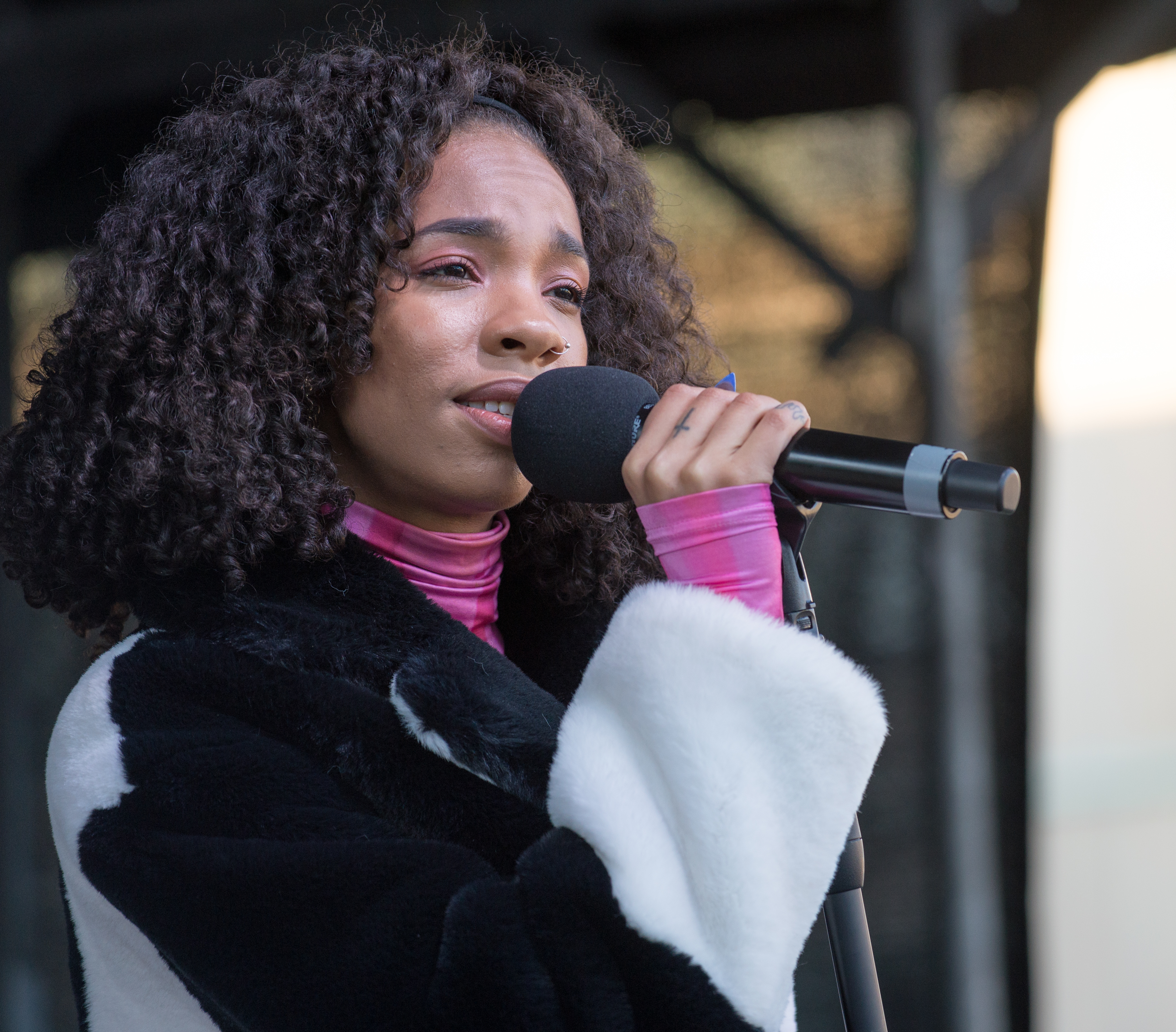 Janice Kavander on stage during Fridays For Future at Medborgarplatsen in Stockholm, February 14, 2020.